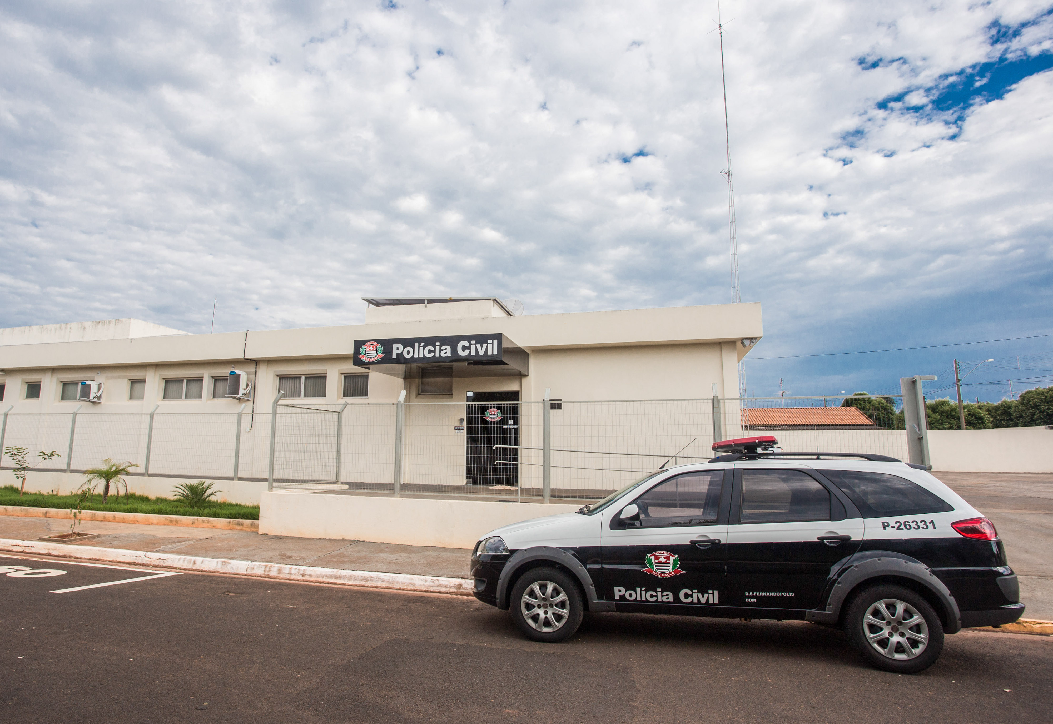 O Governador do Estado de São Paulo, participa da entrega de 100 unidades habitacionais, ampliação e reforma da Delegacia na cidade de Populina.Data: 11/12/2015. Local: Populina/SP.Foto: Diogo Moreira/A2img